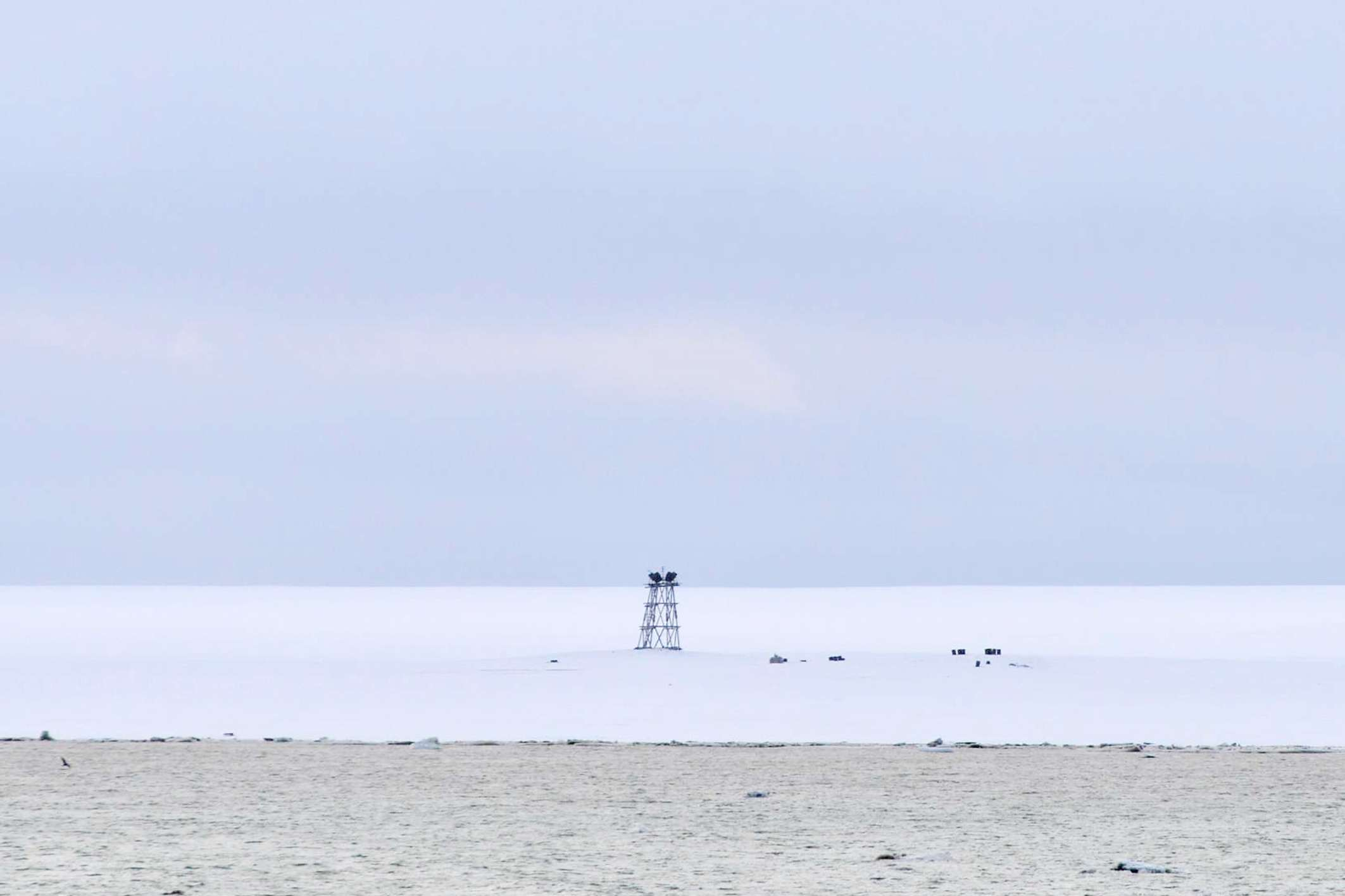 Abandoned Russian polar station Izluchina (Komsomolets Island, Severnaya Semlya, Russia)